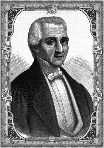 Self-portrait of José Mariano Michelena, Lithograph (1870-1907).